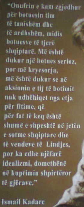 Photograph of a wall decoration in the main offices of the Onufri Publishing House, Tirana, Albania, containing Ismail Kadare's appraisal of the Publishing House.